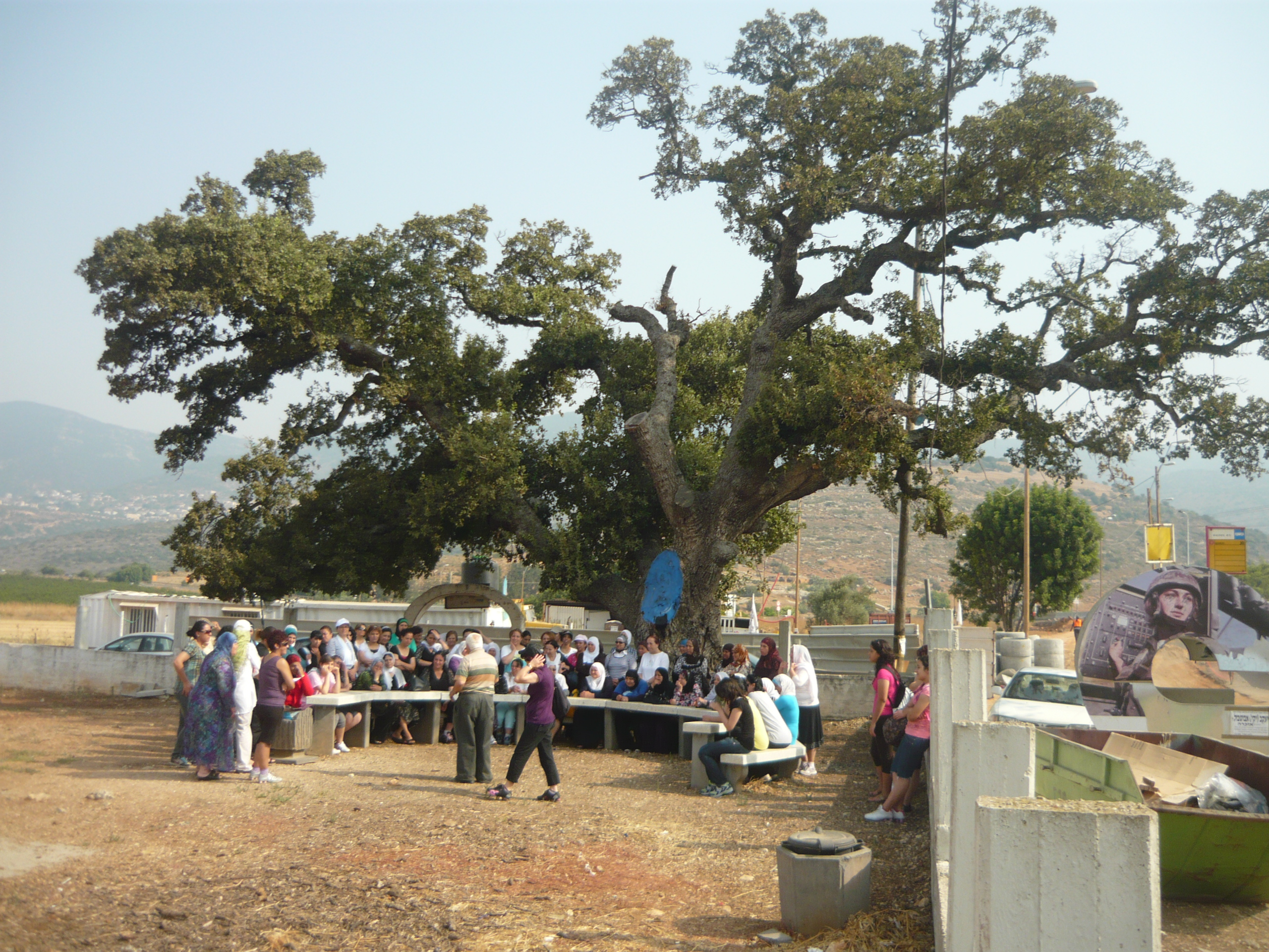 ancient oak near the grave of Rabbi Halafta near Mughar, Israel עץ האלון העתיק הסמוך לקברו של רבי חלפתא ליד מר'אר